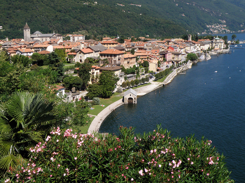 Cannobio Panorama